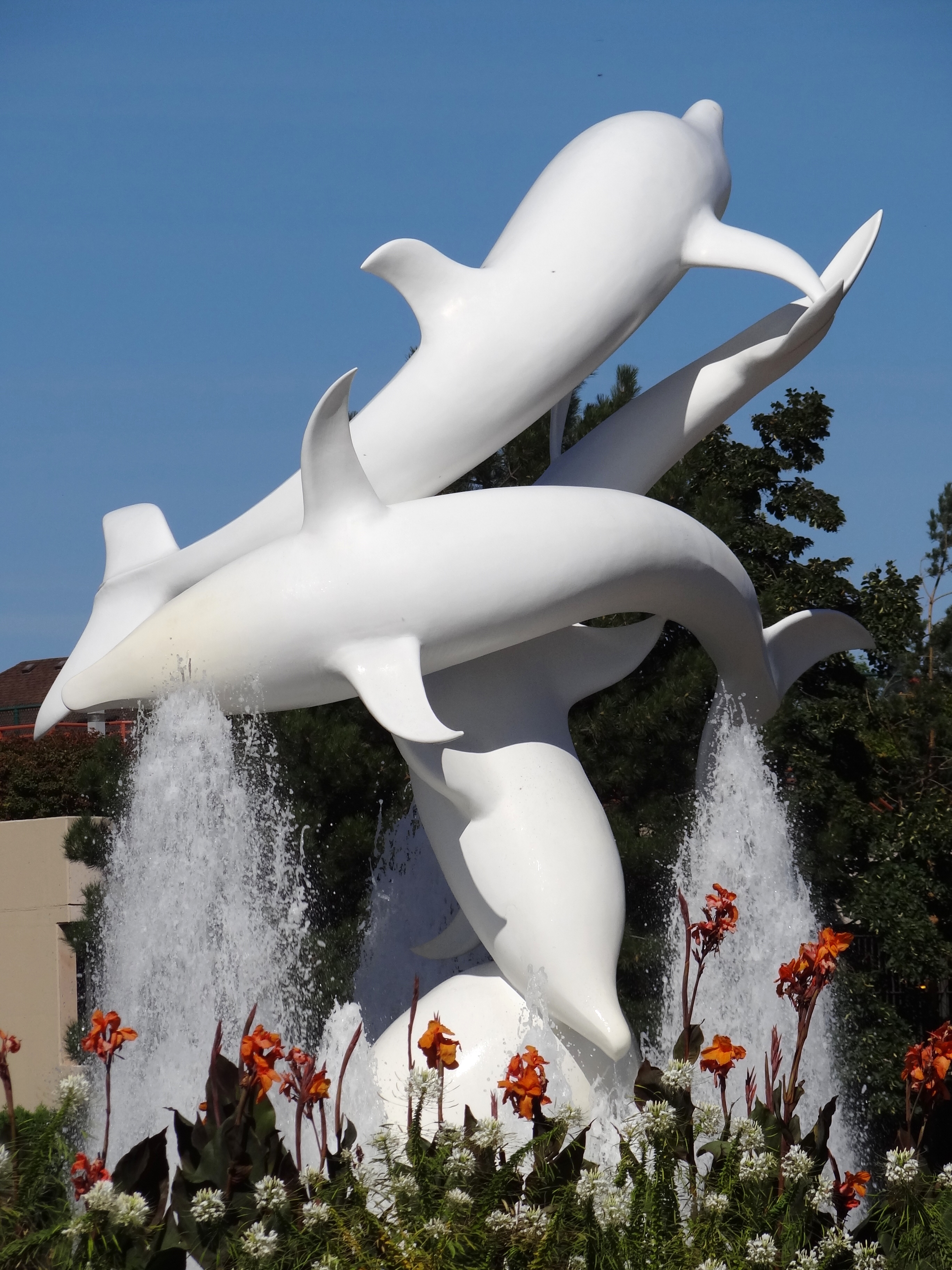 Porpoise Sculpture with Flowers and Fountains - Waterfront Park - Kelowna - British Columbia - Canada